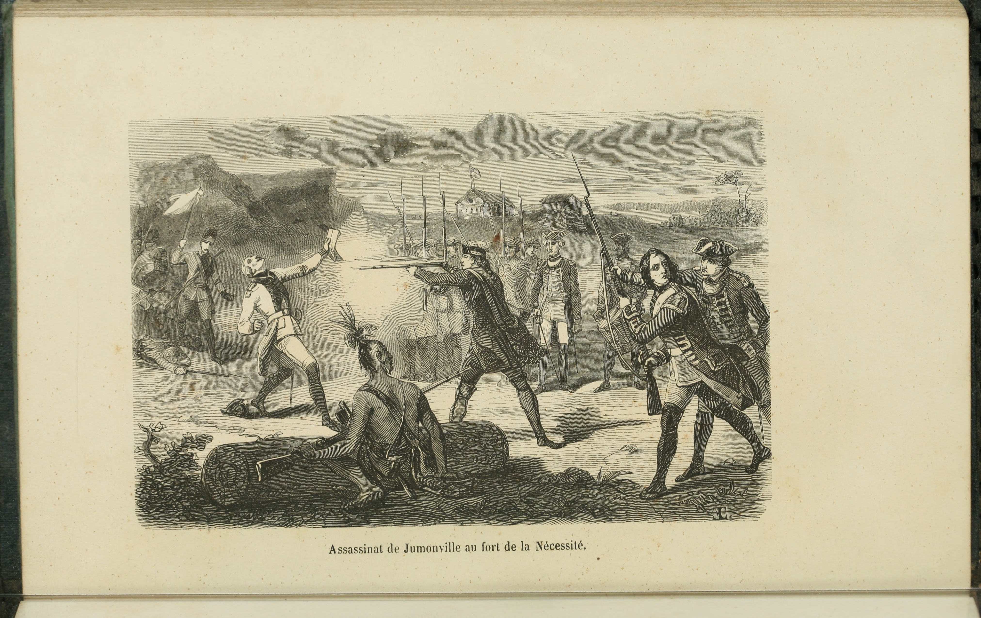 In this artist's version of the incident at Jumonville Glen, the English under the command of George Washington are depicted as murdering the defenseless French commander Jumonville in cold blood. Contemporary accounts of the incident are contradictory; it is more likely that Jumonville was in fact tomahawked by the Indian leader Tanaghrisson while Washington watched without intervening.